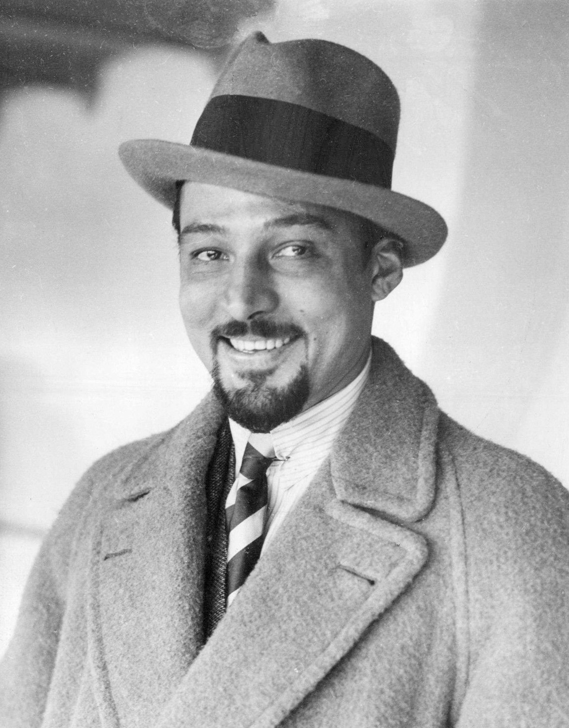 Photo of Rudolph Valentino with a beard.